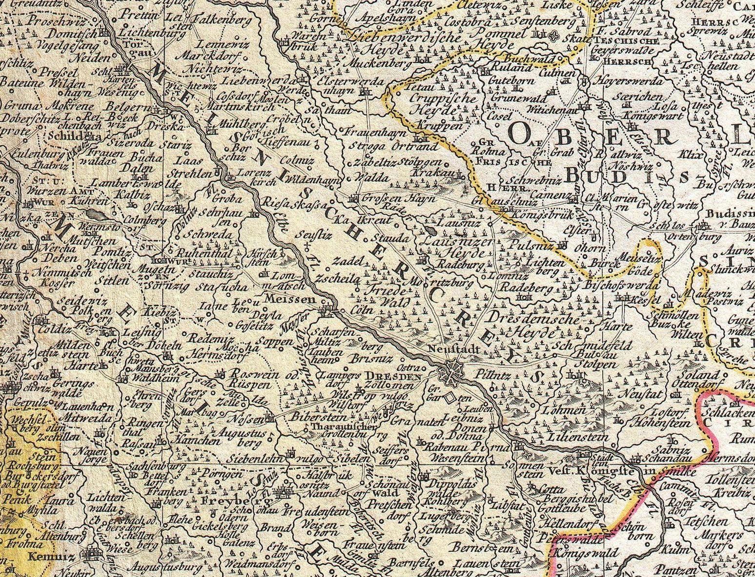 A fine example of the Homann Heirs map of Saxony, Germany. Covers from Berlin in the north, to Prague in the southeast and Efurt in the west. The map is filled with information including fortified cities, villages, roads, bridges, forests, battlefields, castles and topography. Title cartouche in the upper left quadrant features a wonderful mining vignette, the Greek god Hermes, and a warrior figure with a shield featuring the head of Medusa. Prepared in Nuremberg by the engravers Adam Friedrich Zürner and Zolman for issue in Homann Heirs’ Maior Atlas Scholasticus .